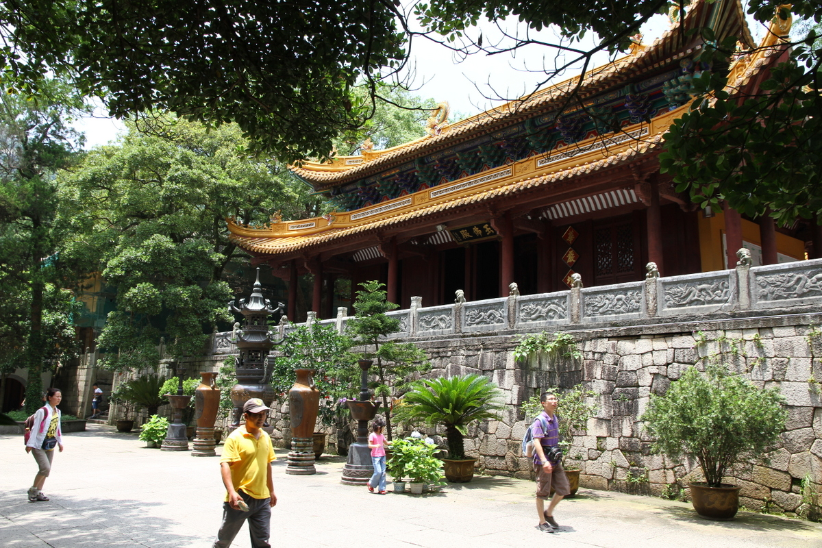 A hall in Fayu Temple on Putuo Shan island in China